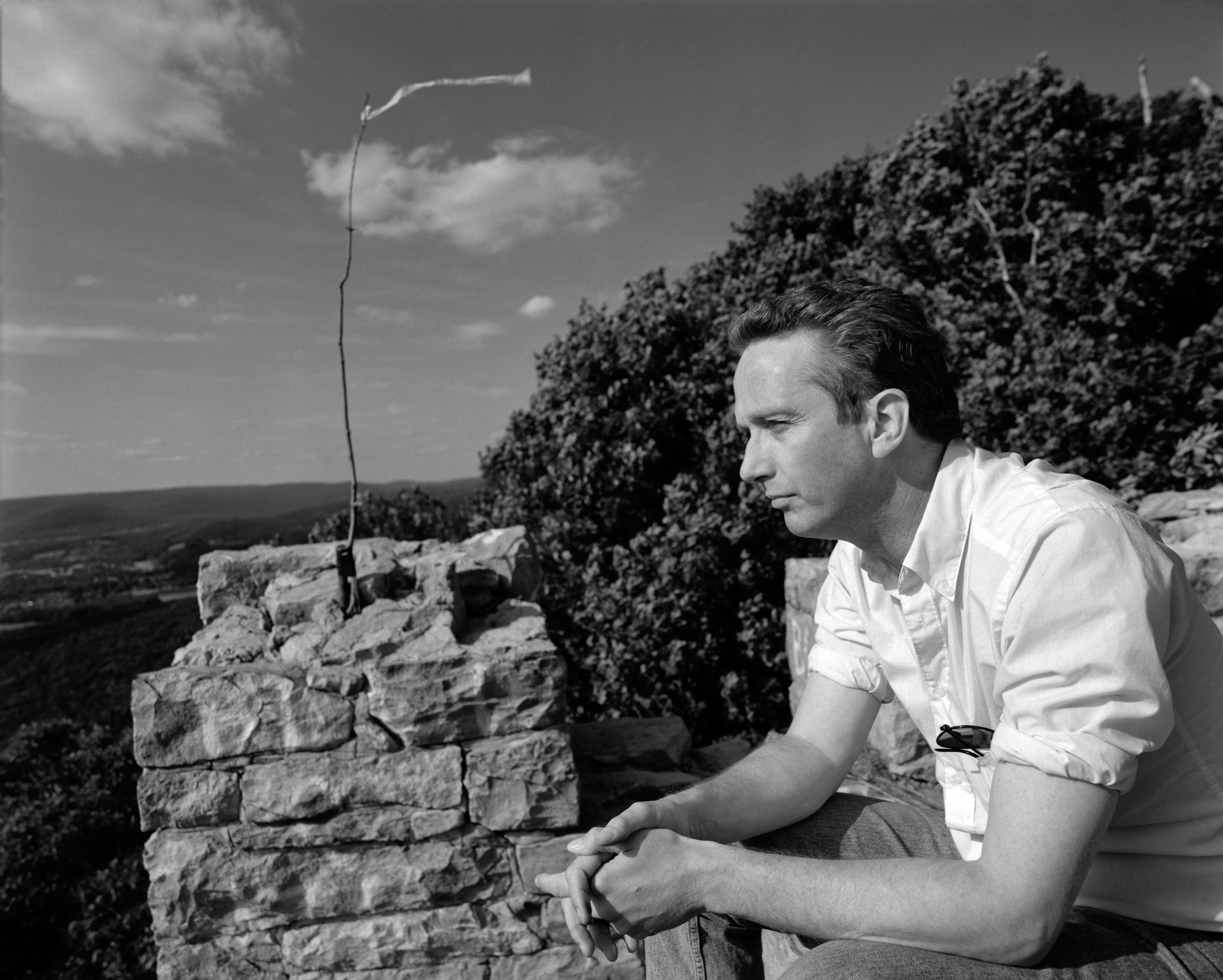 John Grazier, 1990.